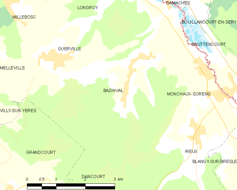 Map of French municipality Bazinval